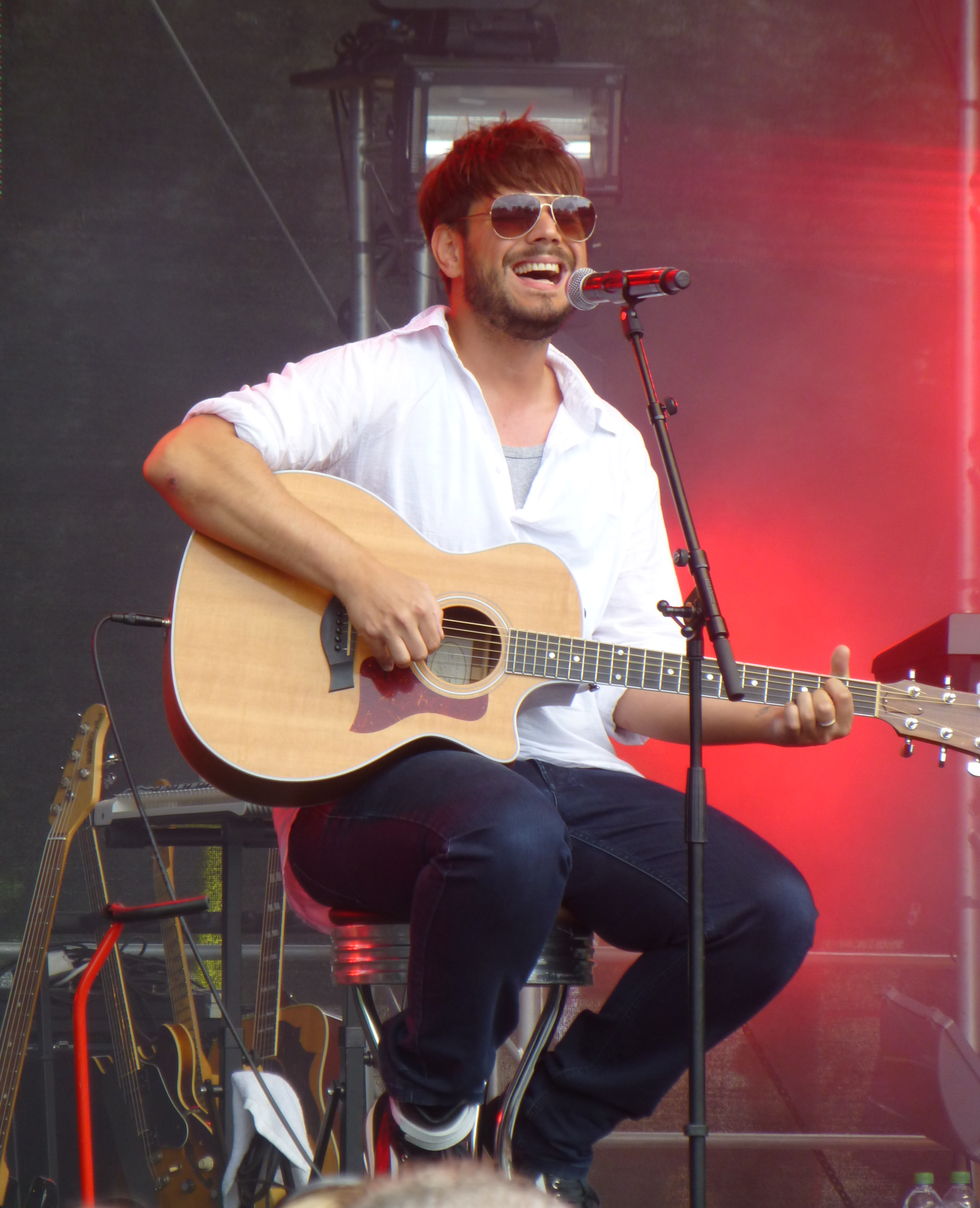 Nevio Passaro on the Radio Salü stage at the Saarspektakel 2014 in Saarbrücken